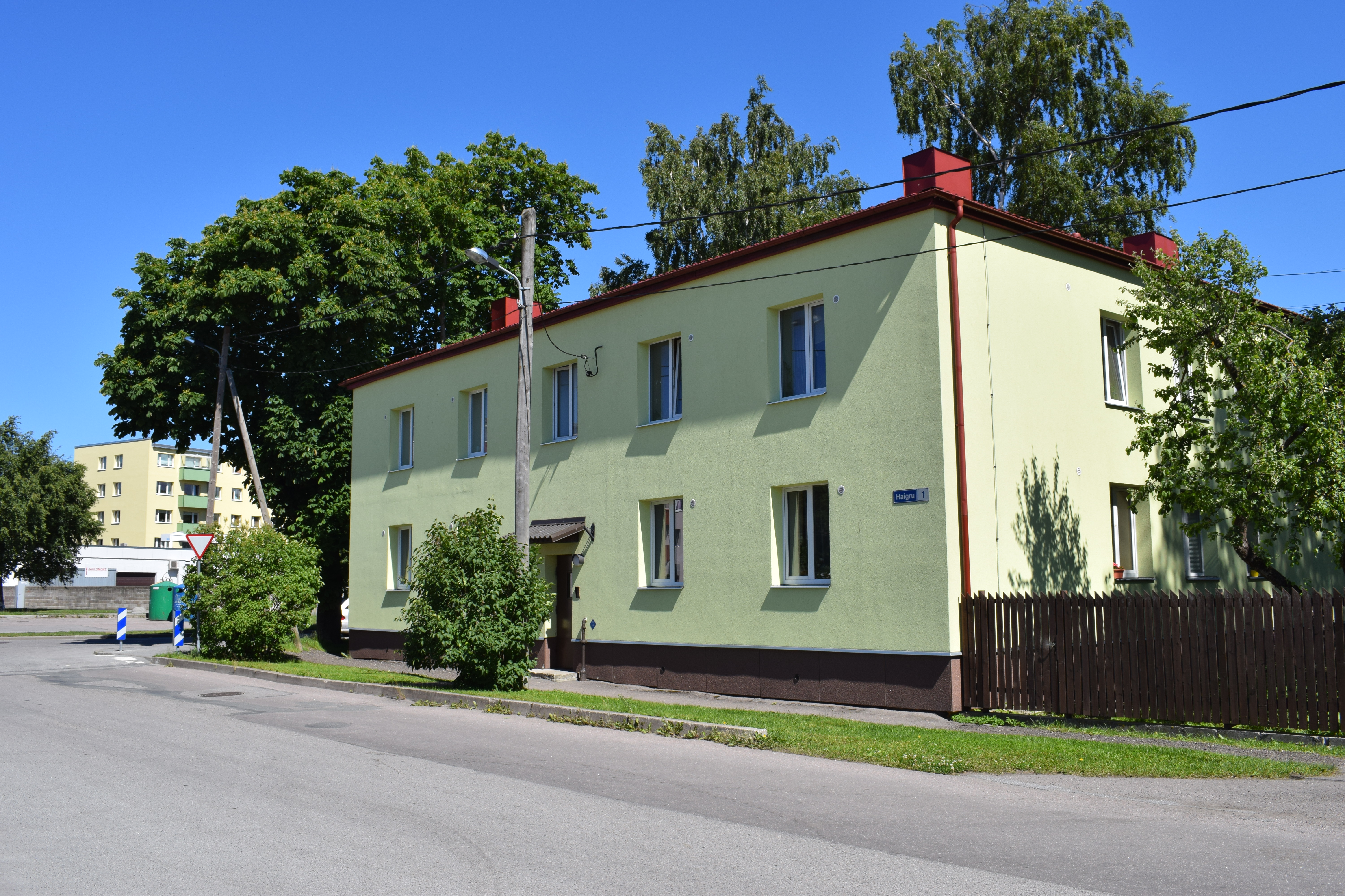 Haigru 1